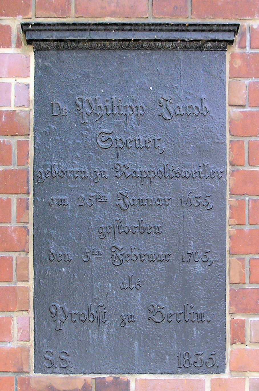 Memorial plaque, Philipp Jacob Spener, Nikolaikirchplatz , Berlin-Mitte, Germany Koordinate:52°31′1″N 13°24′28″E / 52.51694°N 13.40778°E